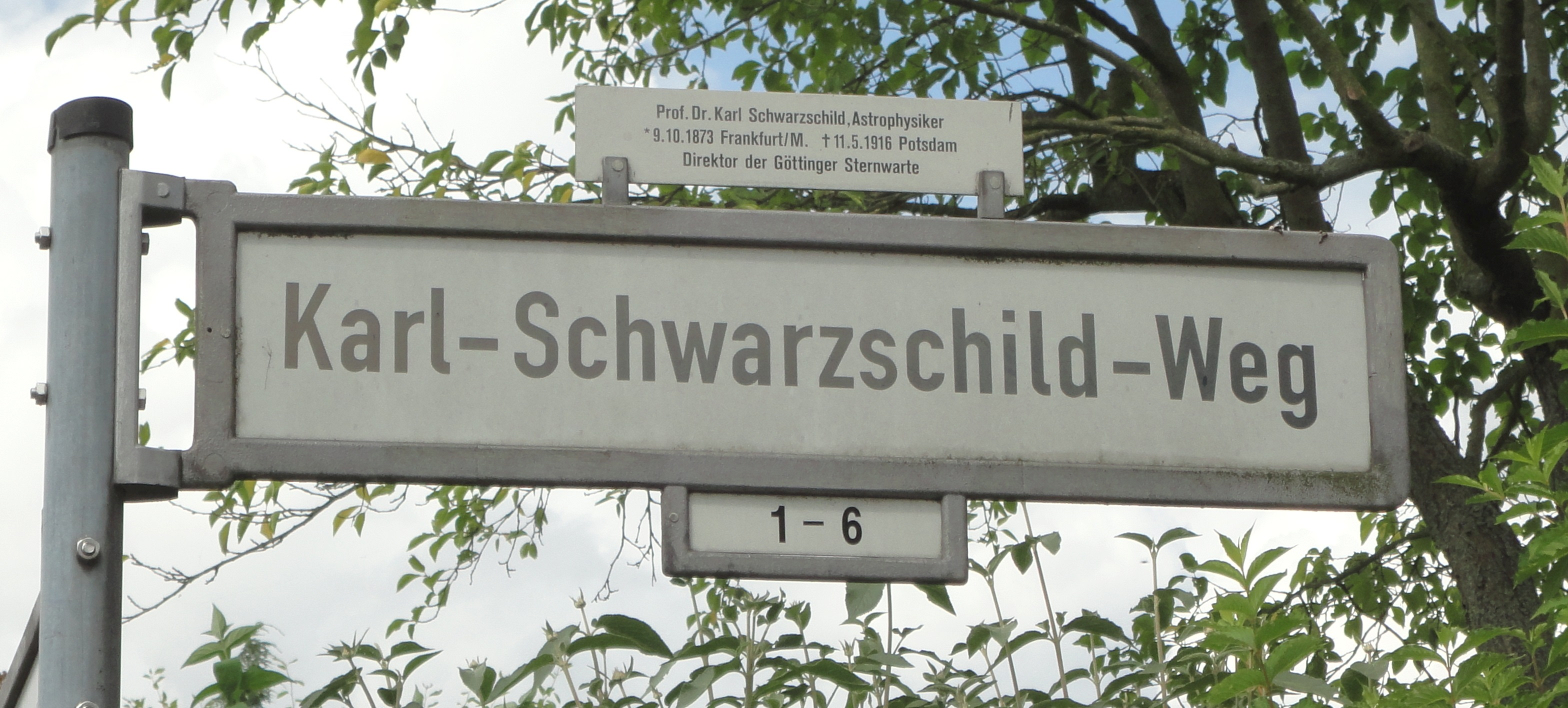 Göttingen-Weende, road sign Karl-Schwarzschild-Weg